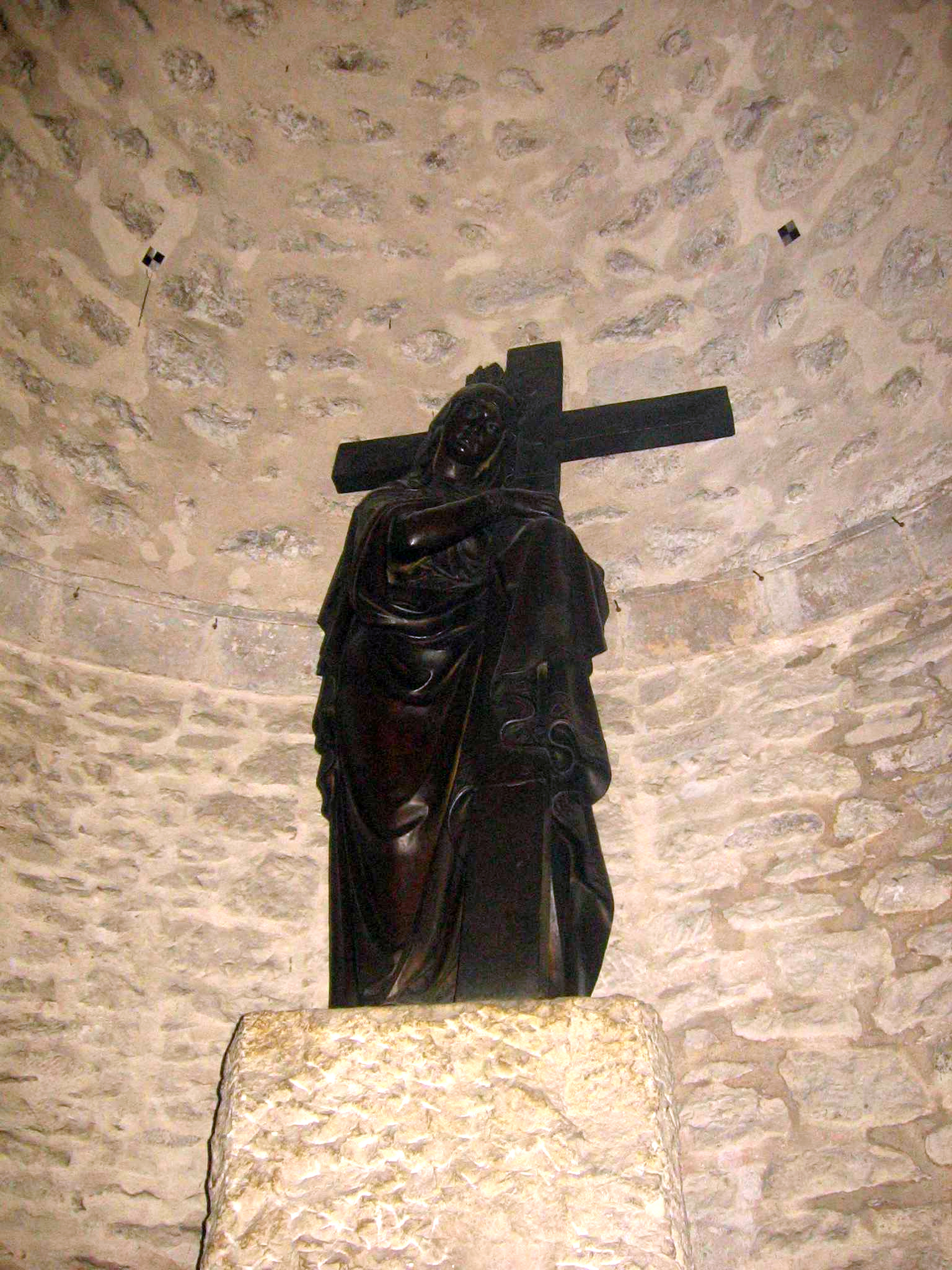 Statue and altar of St. Helene on Calvary in Jerusalem. Altar erected in 1857 from Austrian-Mexican Emperor Ferdinand Maximilian